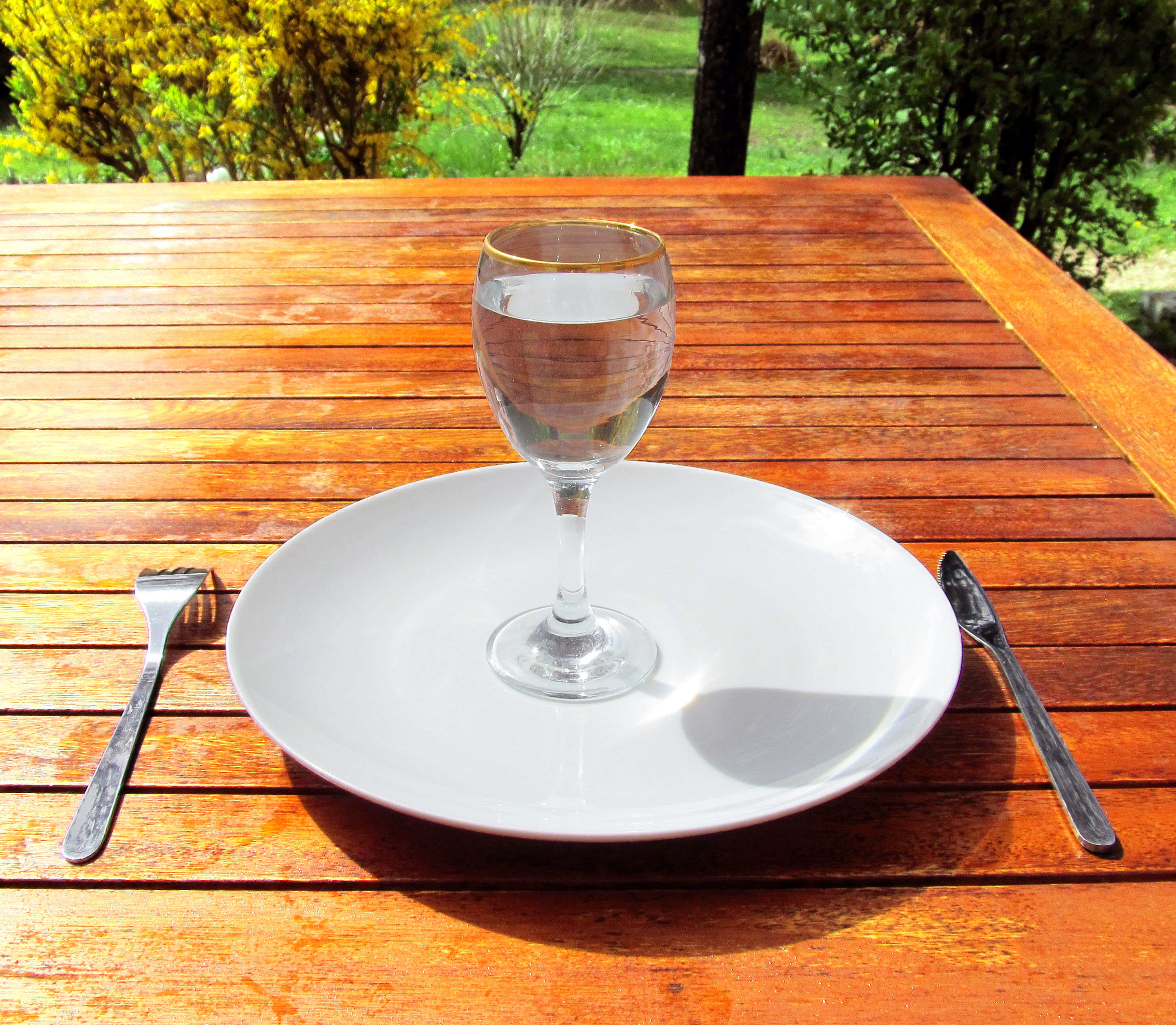 Fasting - A glass of water in an empty plate